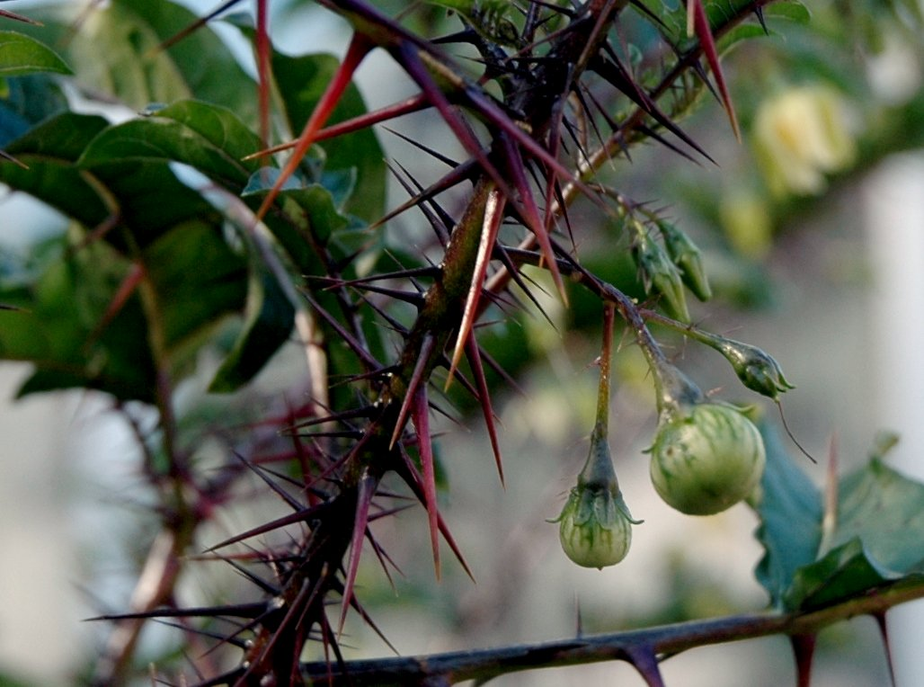 Fruits of Solanum atropurpureum (Solanaceae) at Jena Botanical Garden, Germany